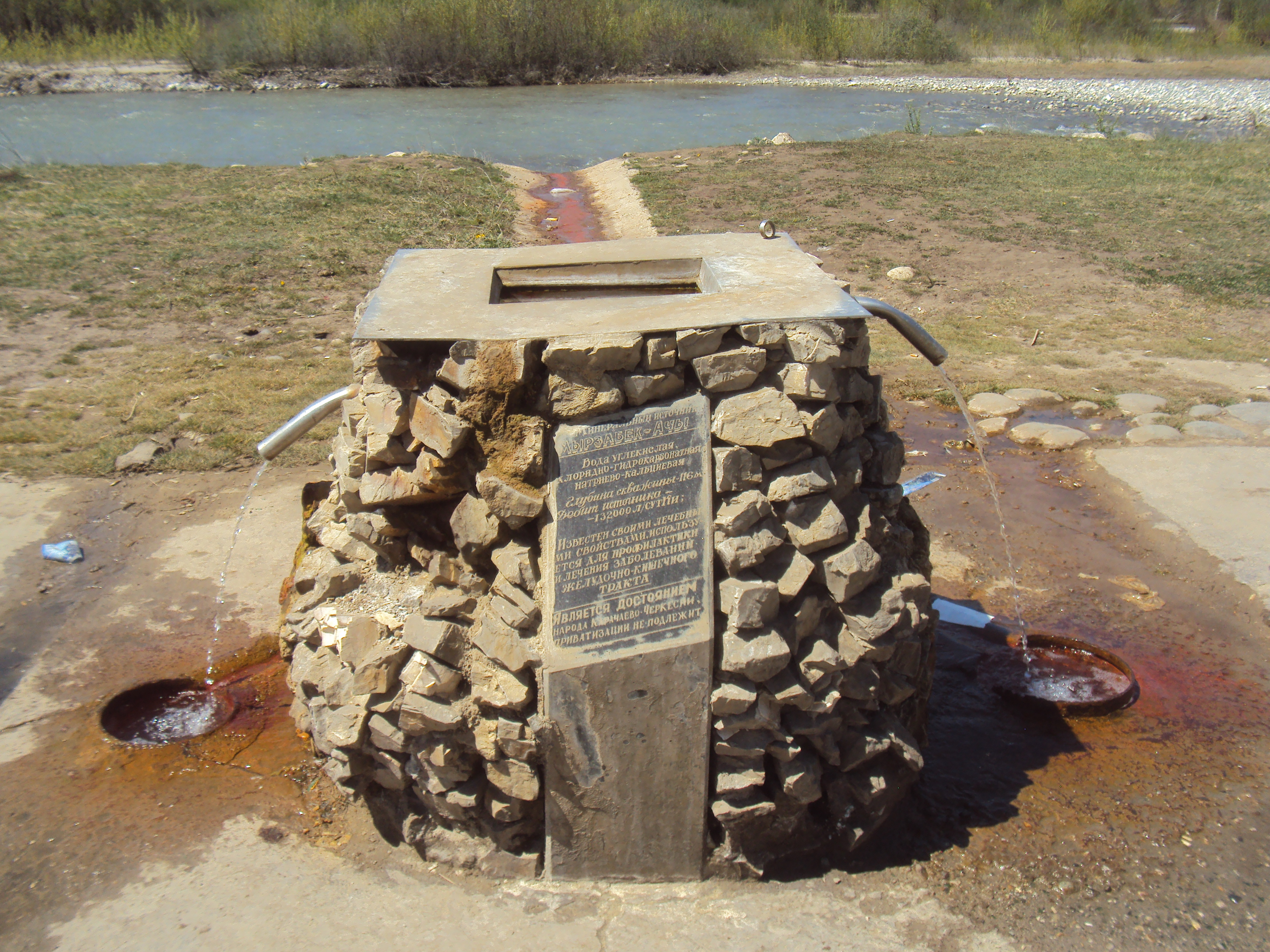 mineral spring Krasnogorskij